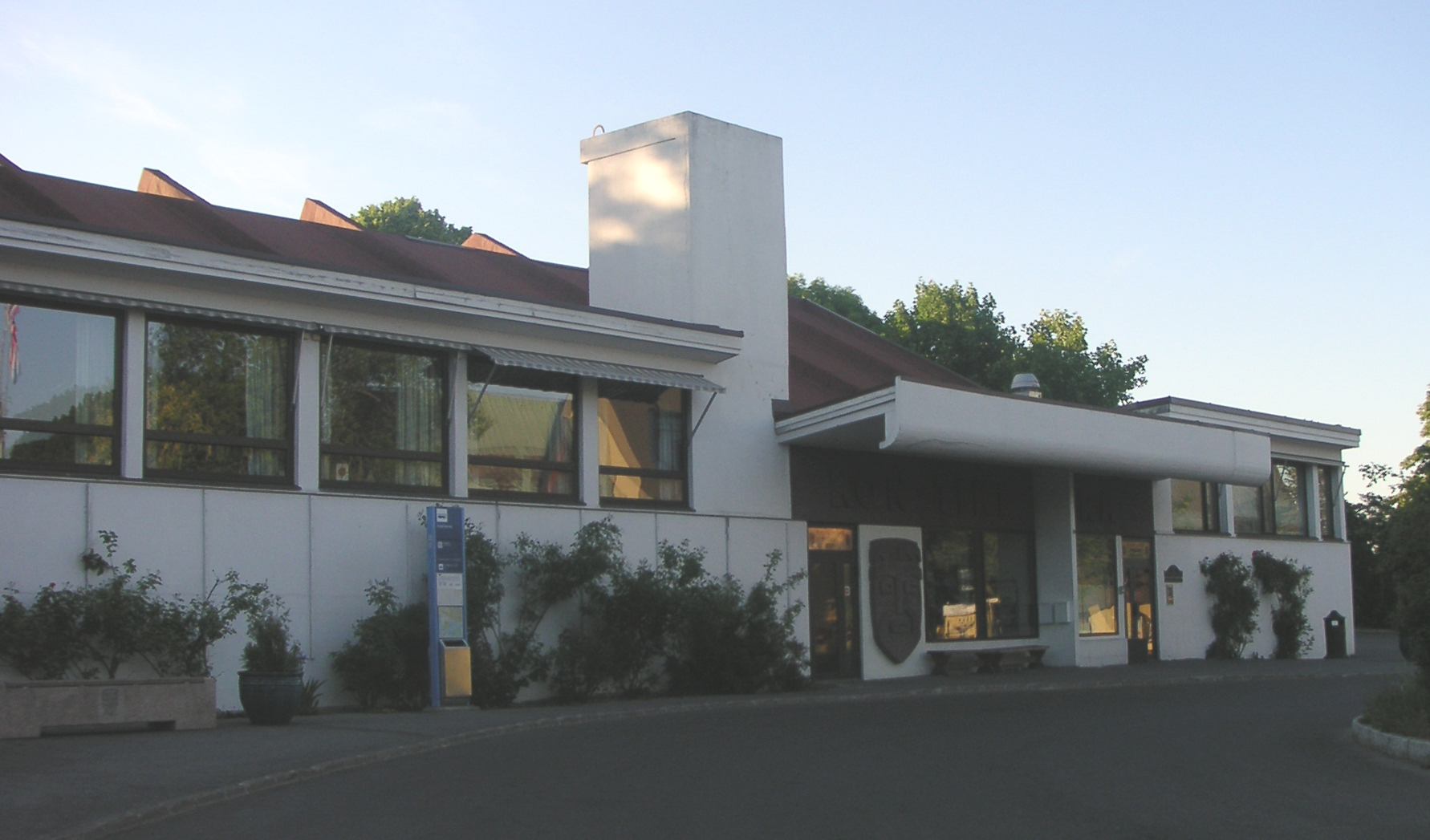 The Kon-tiki museum on Bygdøy in Oslo, Norway. Boats and remains from Thor Heyerdahls expeditions.